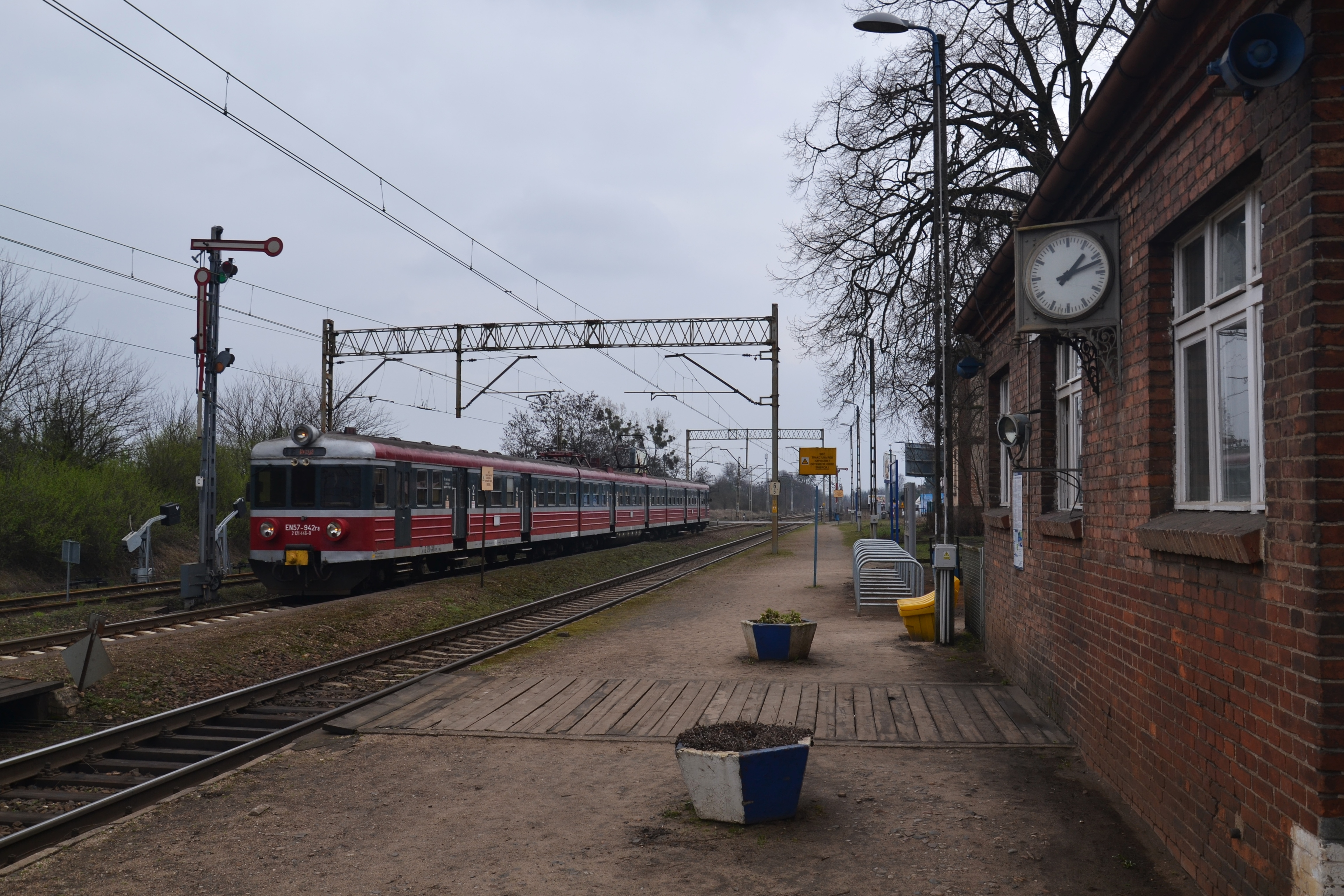 EN57-942 wjeżdża na stację Poznań Wola This photo was taken during Railway Wikiexpedition 2015 set up by Wikimedia Polska Association in cooperation with Fundacja Grupy PKP. You can see all photographs in category Wikiekspedycja kolejowa 2015.